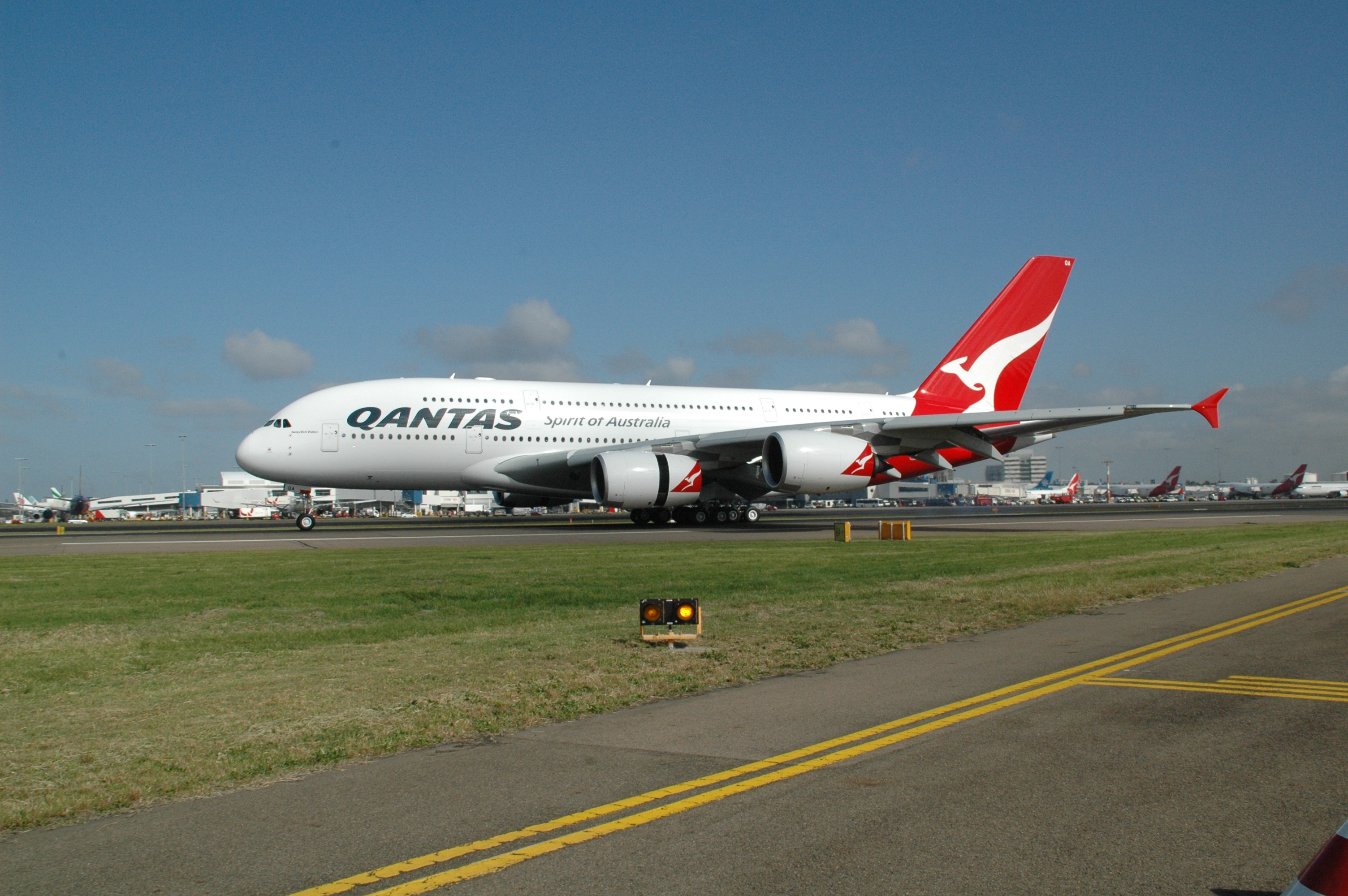 Trevor Long, Taken by Trevor Long September 21 2008, personal photo taken Airside adjacent to the runway on the A380's first touch down